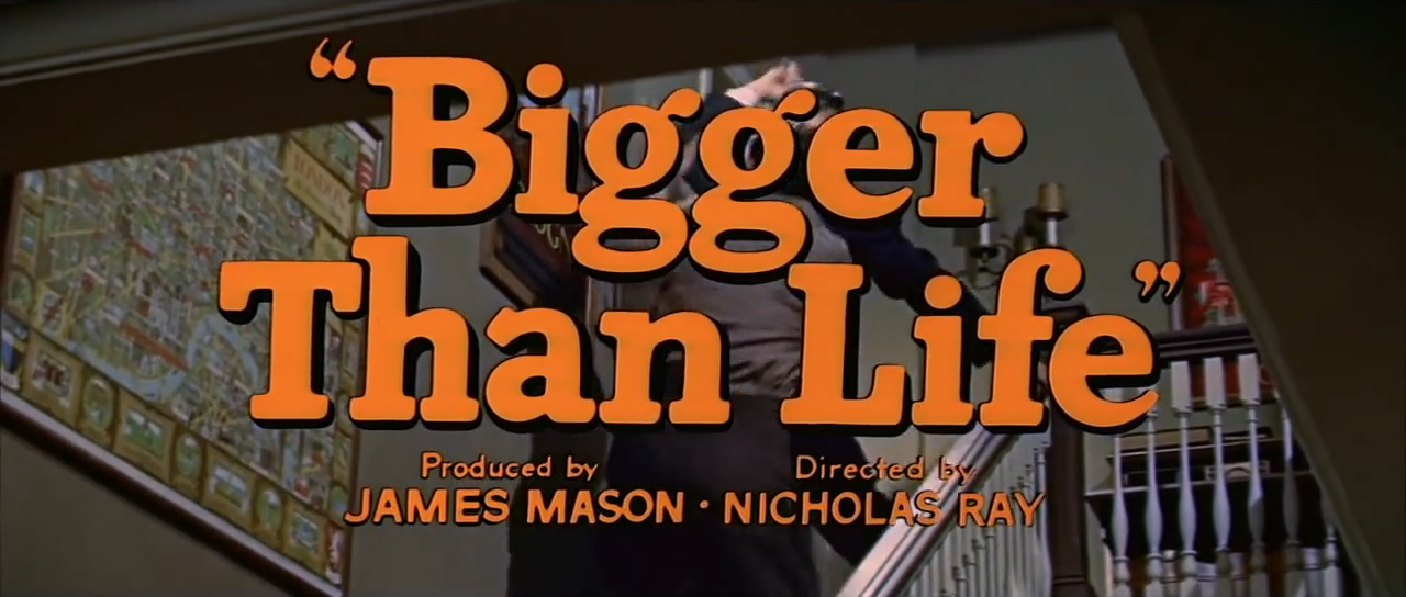 Screenshot from the trailer for the film Bigger Than Life (1956).